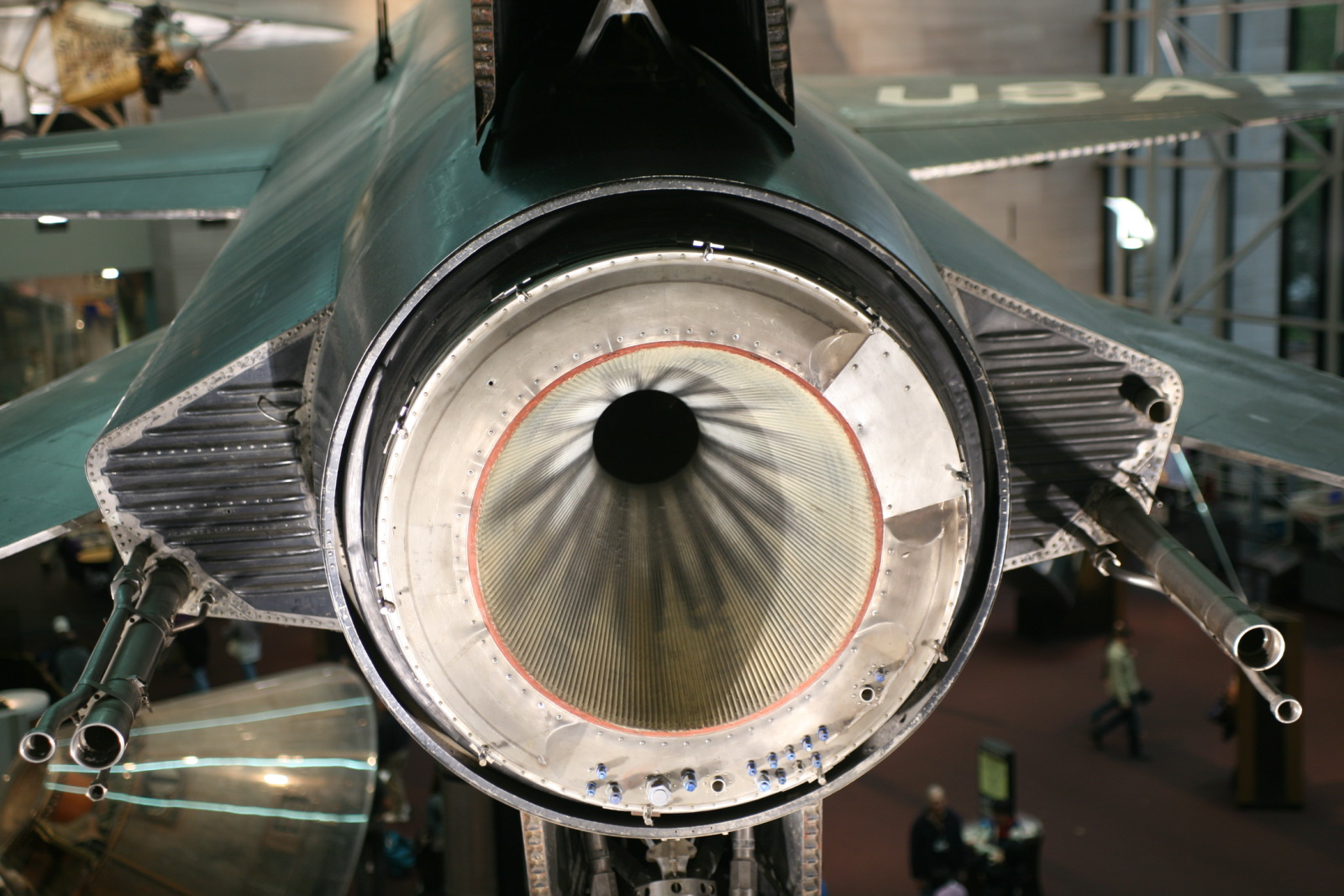 Detail of the Thiokol (Reaction Motors) XLR-99-RM-2 rocket engine nozzle installed on the North American X-15, a rocket-powered research aircraft.